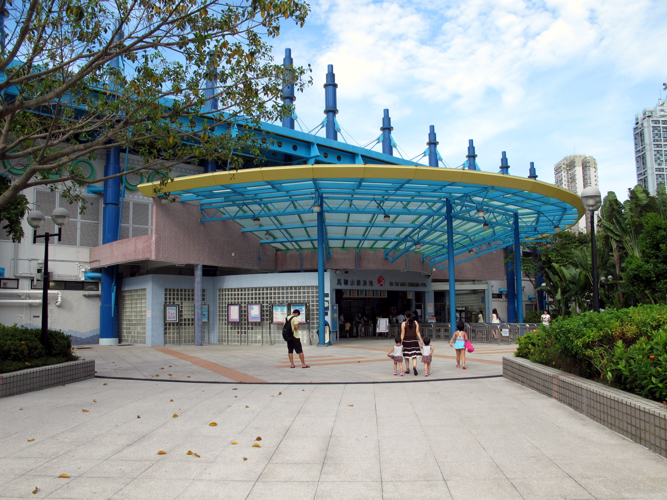 Ma On Shan Swimming Pool Entrance